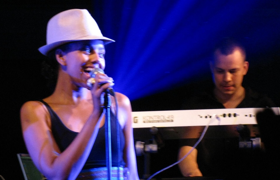 The German singer Mariama at the Breminale 2009 in Bremen, Germany (4. July 2009)